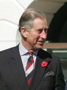 Charles, Prince of Wales outside the White House on an official visit to the United States in 2005.